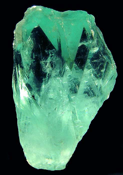 Phosphophyllite Locality: Unificada Mine, Cerro de Potosí (Cerro Rico), Potosí City, Potosí Department, Bolivia (Locality at ) A juicy, brilliantly colored phosphophyllite crystal with absolutely top gemminess and brightness to it. It is a DOUBLE TWIN - it has four separate twinned crystals grown together and diverging at the top in a very complex termination. Unfortunately, it also has some damage in the form of a few small cleaves and bruises, that while not obvious from the display face but is nevertheless seriously detracting to value. Still, NO COMPARABLE QUALITY HAS BEEN FOUND IN OVER 50 YEARS NOW and this is a large and exceedingly gemmy crystal for the market these days. These remain the Holy Grail of mineral collectors in all size and price ranges. 2.1 x 1.4 x 1 cm